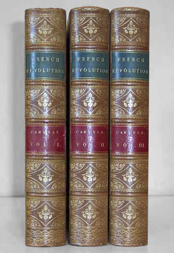 Thomas Carlyle's three-volume French-Revolution, leatherbound edition by Chapman & Hall, London, 1895.